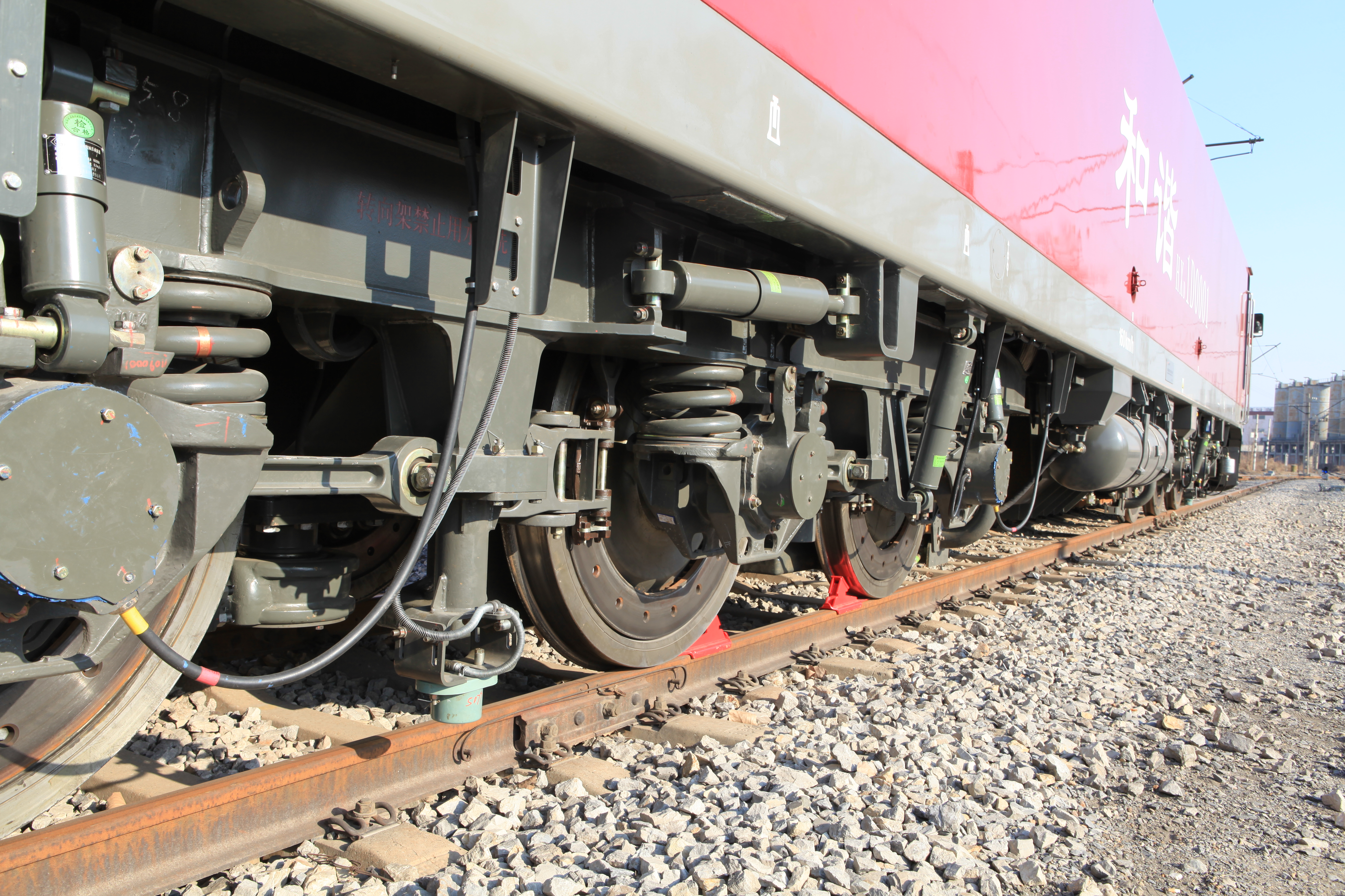 HXD1D Bogie